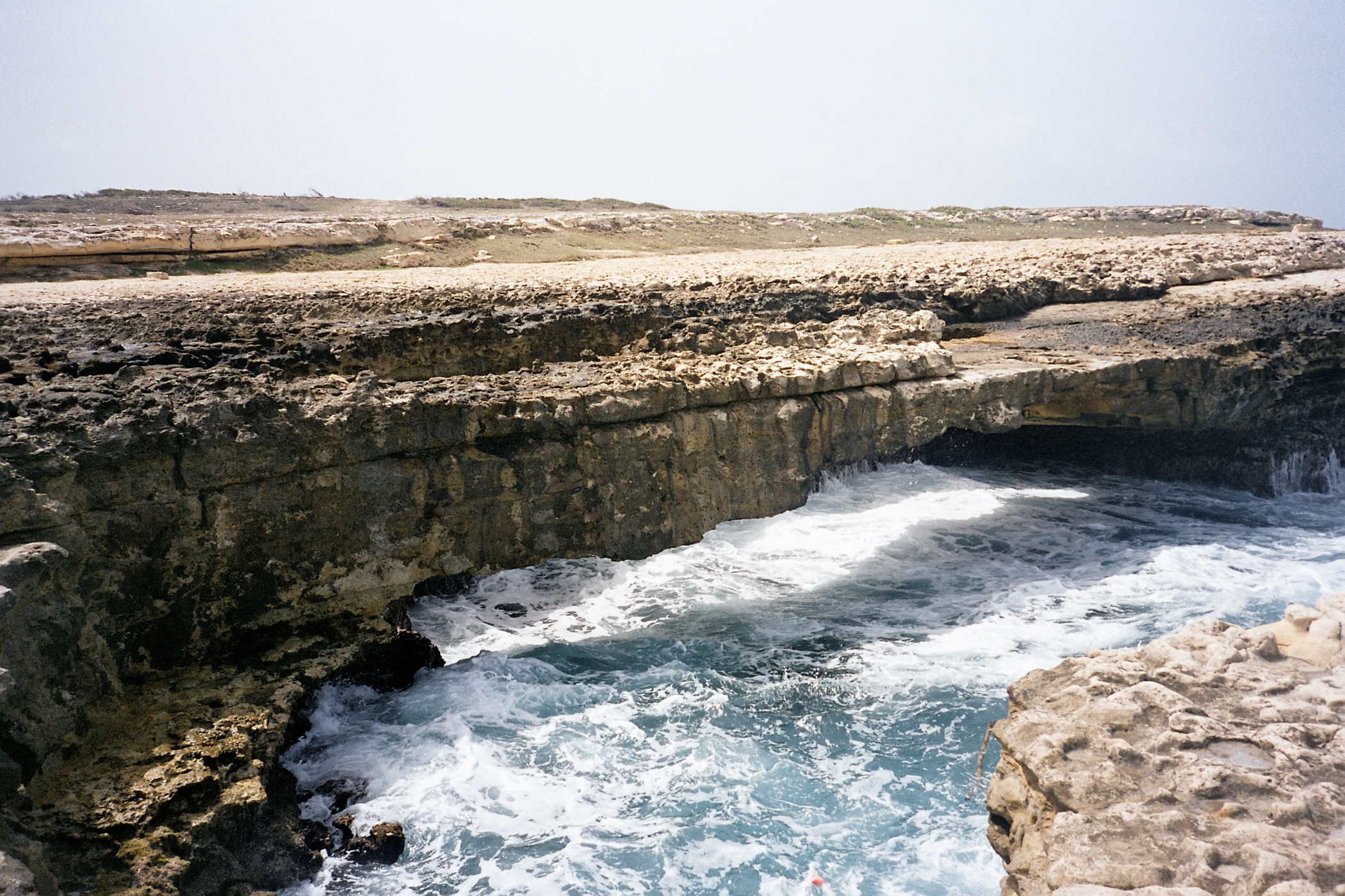 Natural stone bridge: Erosion from the sea created "devil's bridge".